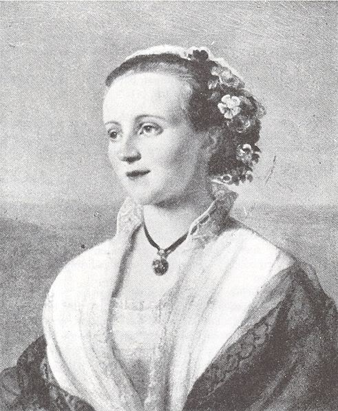 Princess Marie of Nassau (1825-1902)